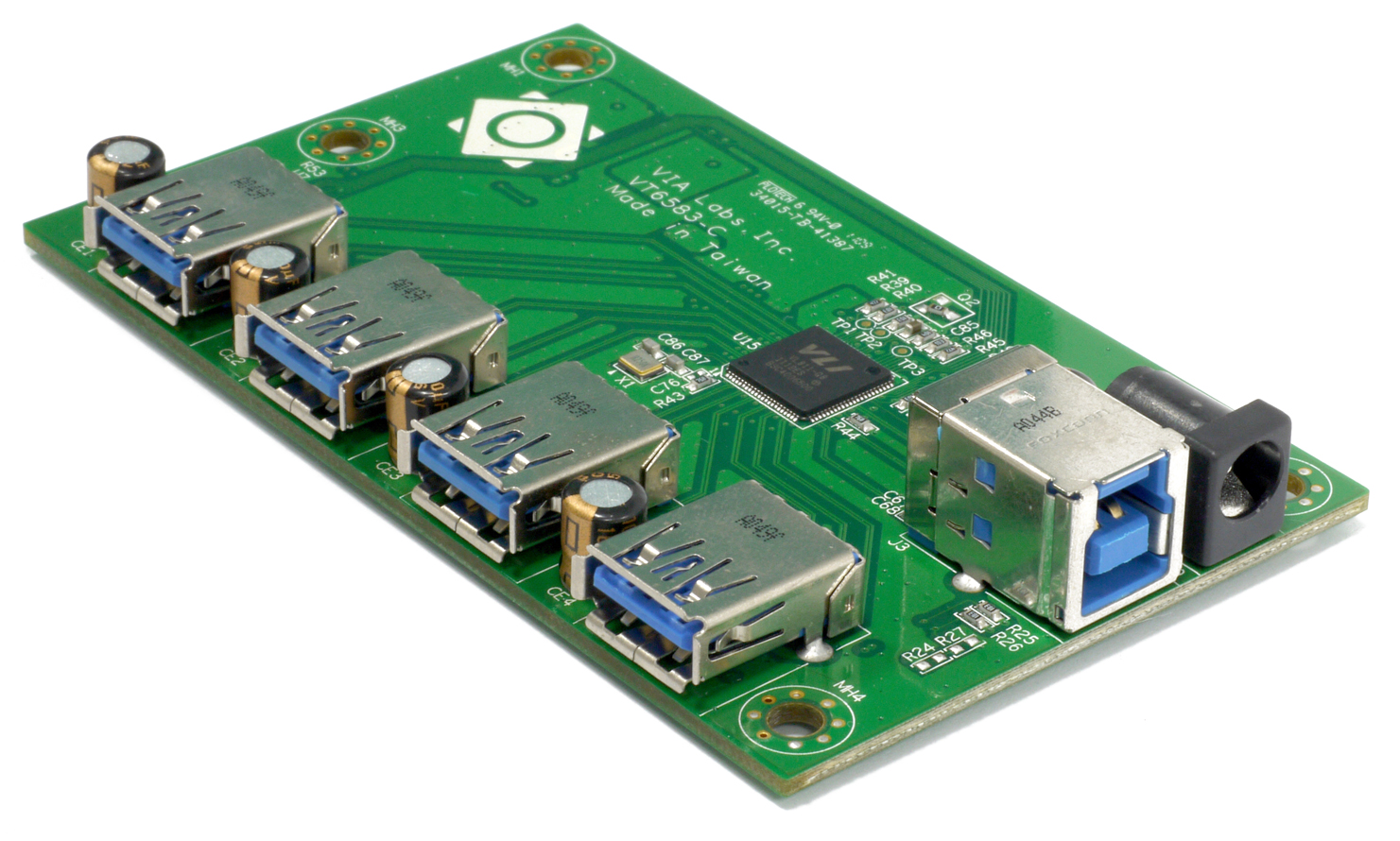 The VIA Labs VL811 USB 3.0 Hub Controller board featuress "Charging Downstream Port," CDP, which offers rapid-charging. Demo board shown here from an angle.